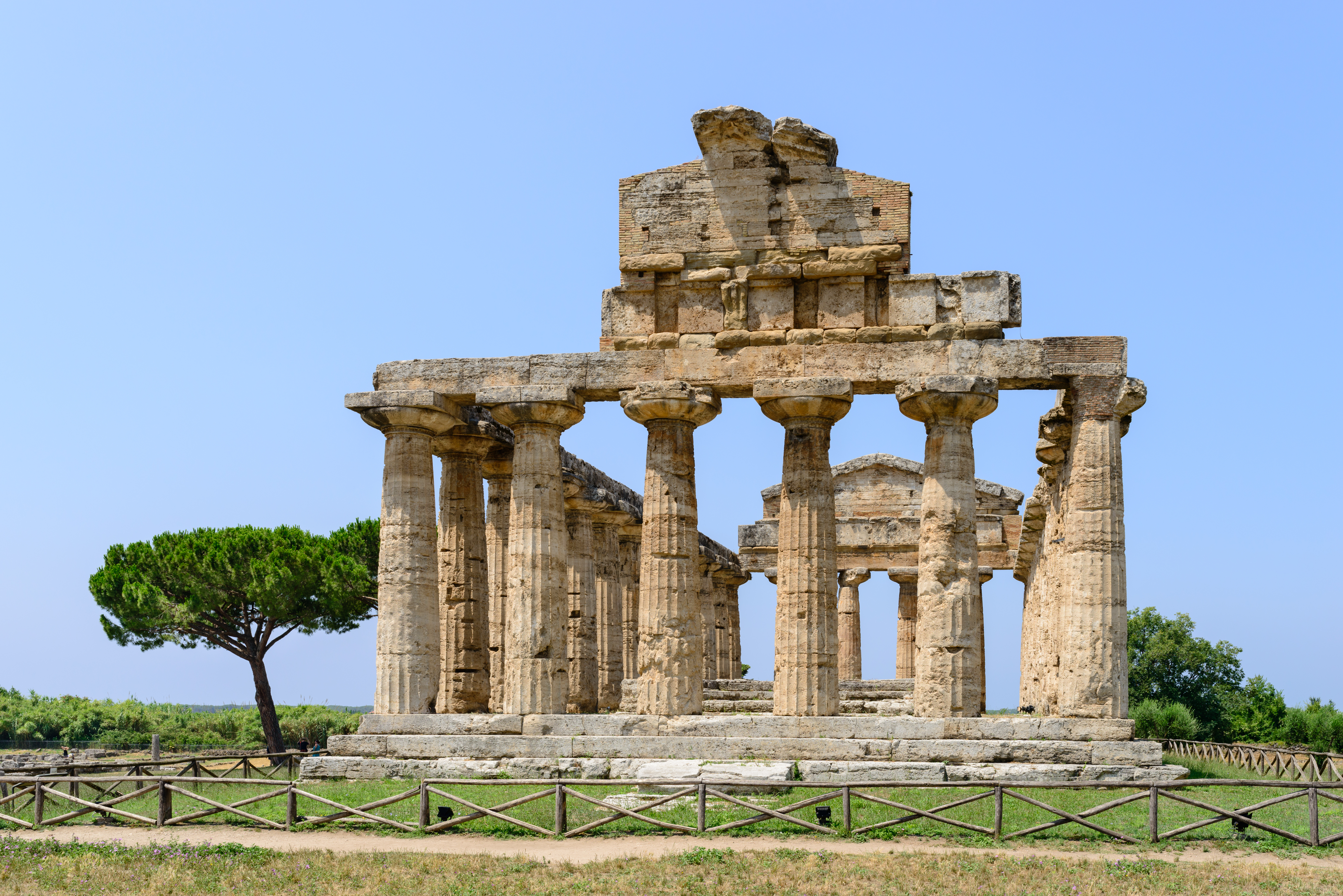 Temple of Athena (Minerva) in Poseidonia (Paestum), Campania, Italy.